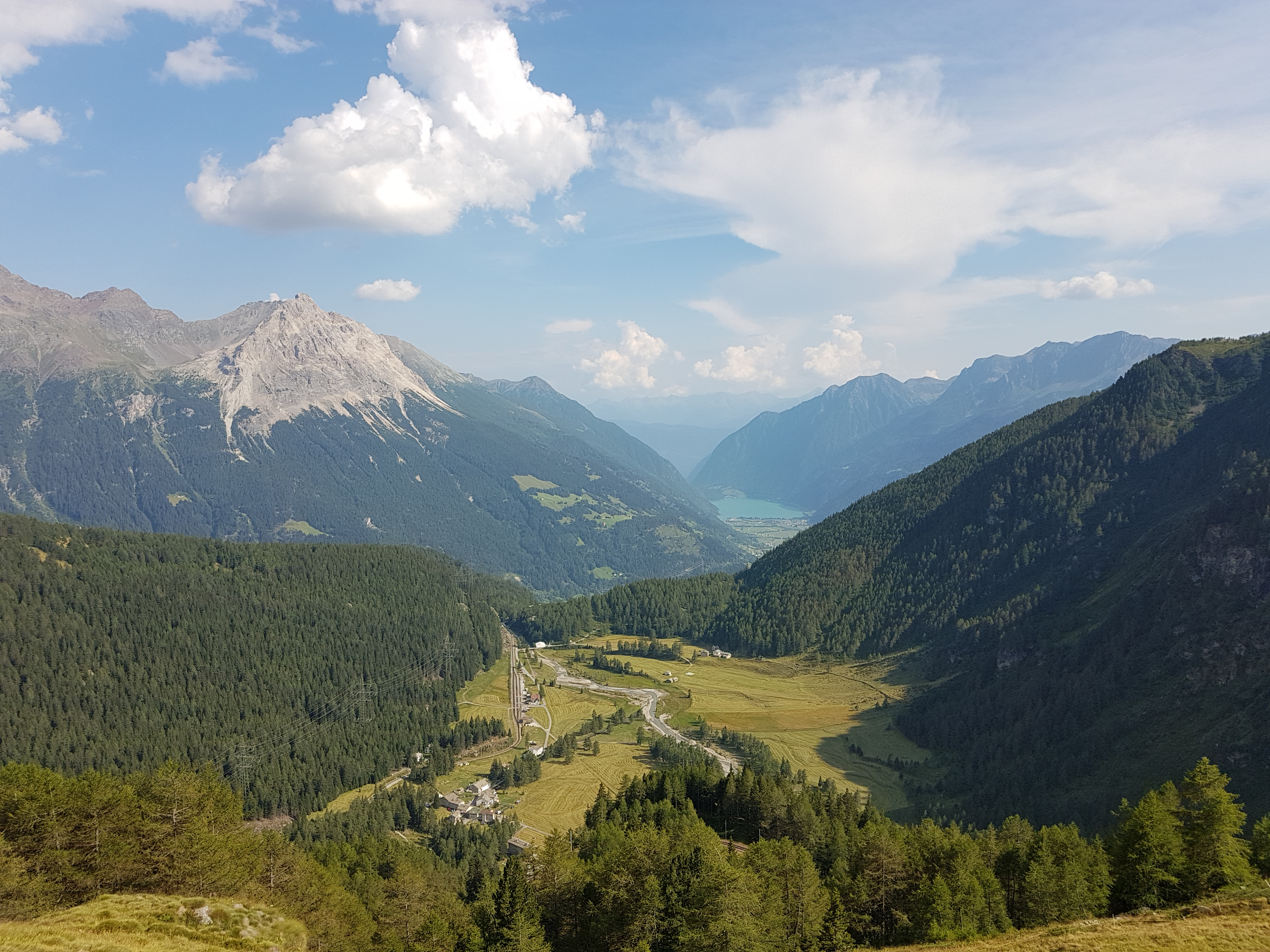 Alp Gruem in Grisons, Schweiz. View from Alp Gruem to Lake Poschavio.